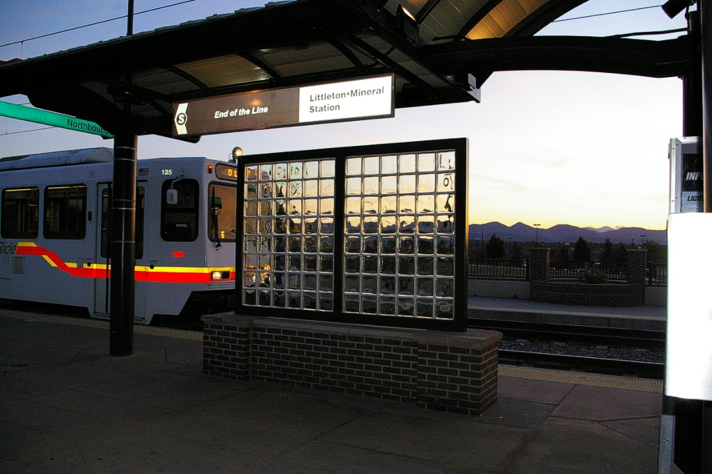 D Line train entering Littleton-Mineral after turning back south of the station